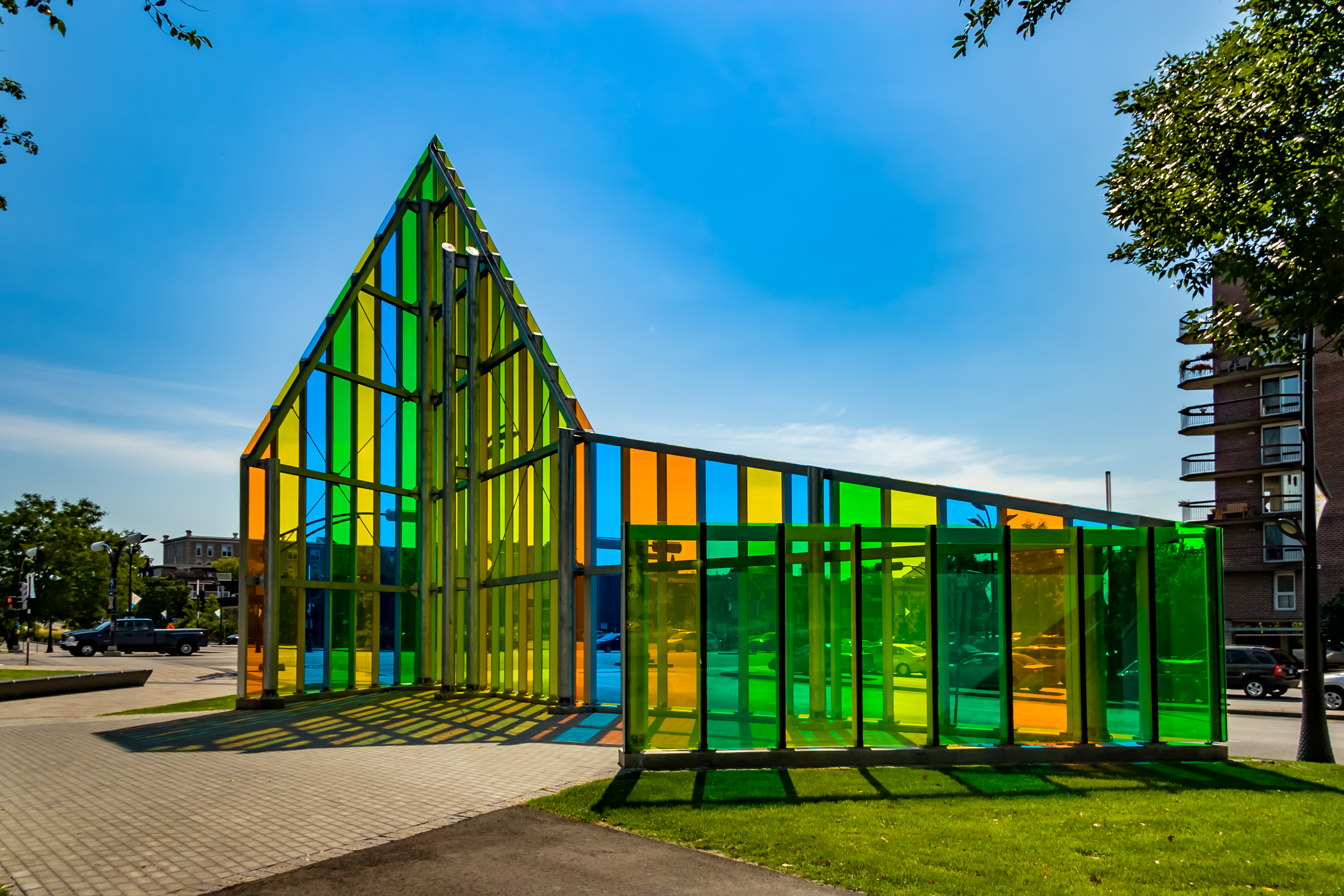 Papa is a work of public art installed on Hull Island in Gatineau. It is an enclosure created by large, multicoloured, transparent glass walls. The interior space forms a small public plaza. Passersby can sit and observe the continually changing conditions produced by the light passing through the coloured glass walls.